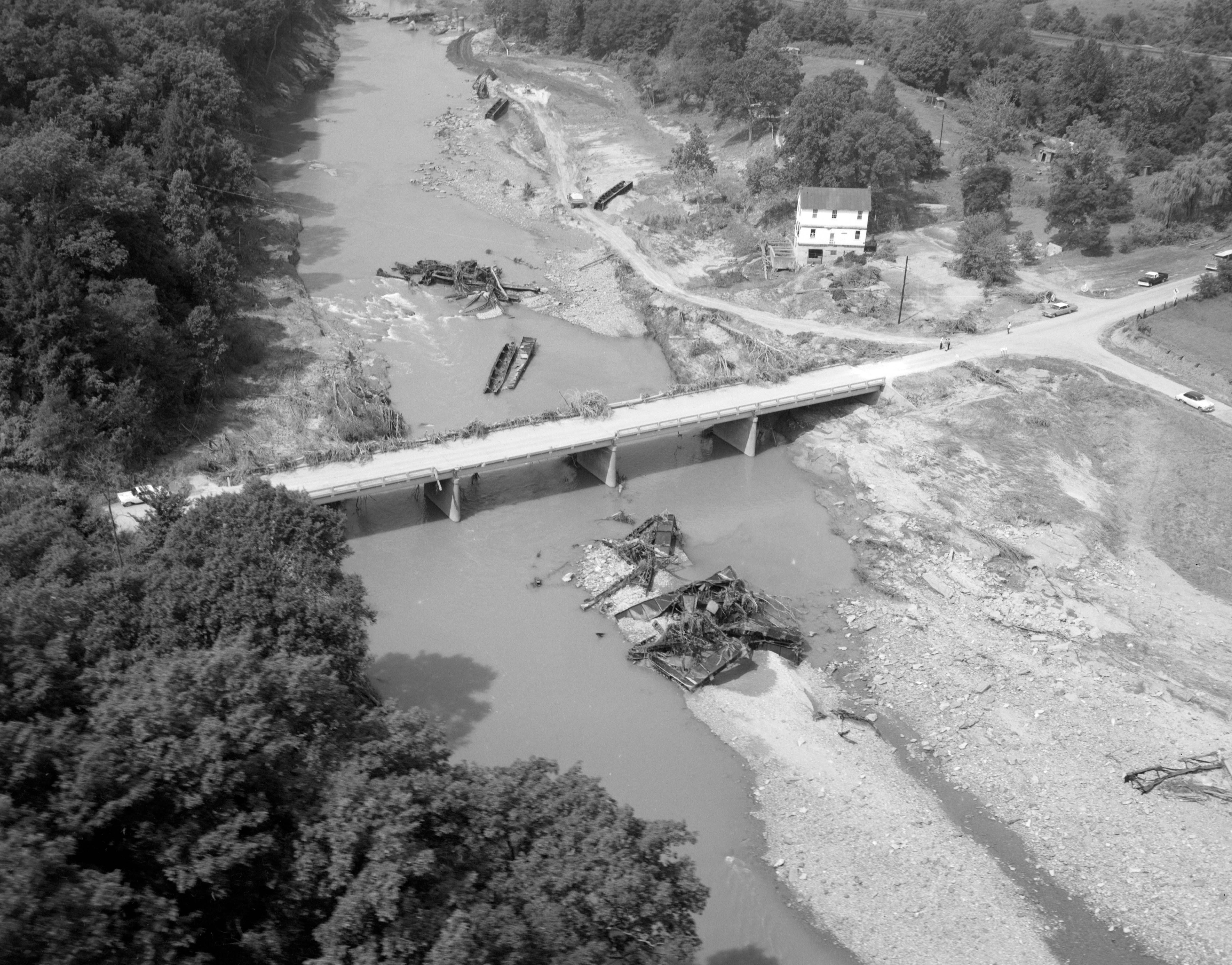 This crossing at the Tye River appears intact, though tree branches and other debris are still caught on the bridge. The metal trestles scattered along the river may be from a railroad crossing upriver from this location. According to the negative sleeve, the Tye River Post Office was located here in Nelson County. No. 69-2256, Virginia Governor's Negative Collection, Library of Virginia.